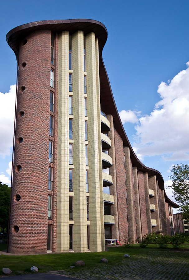 Bispebjerg Bakke, Copenhagen, Denmark. A building complex designed in colaboration with danish artist Bjørn Nørgård.